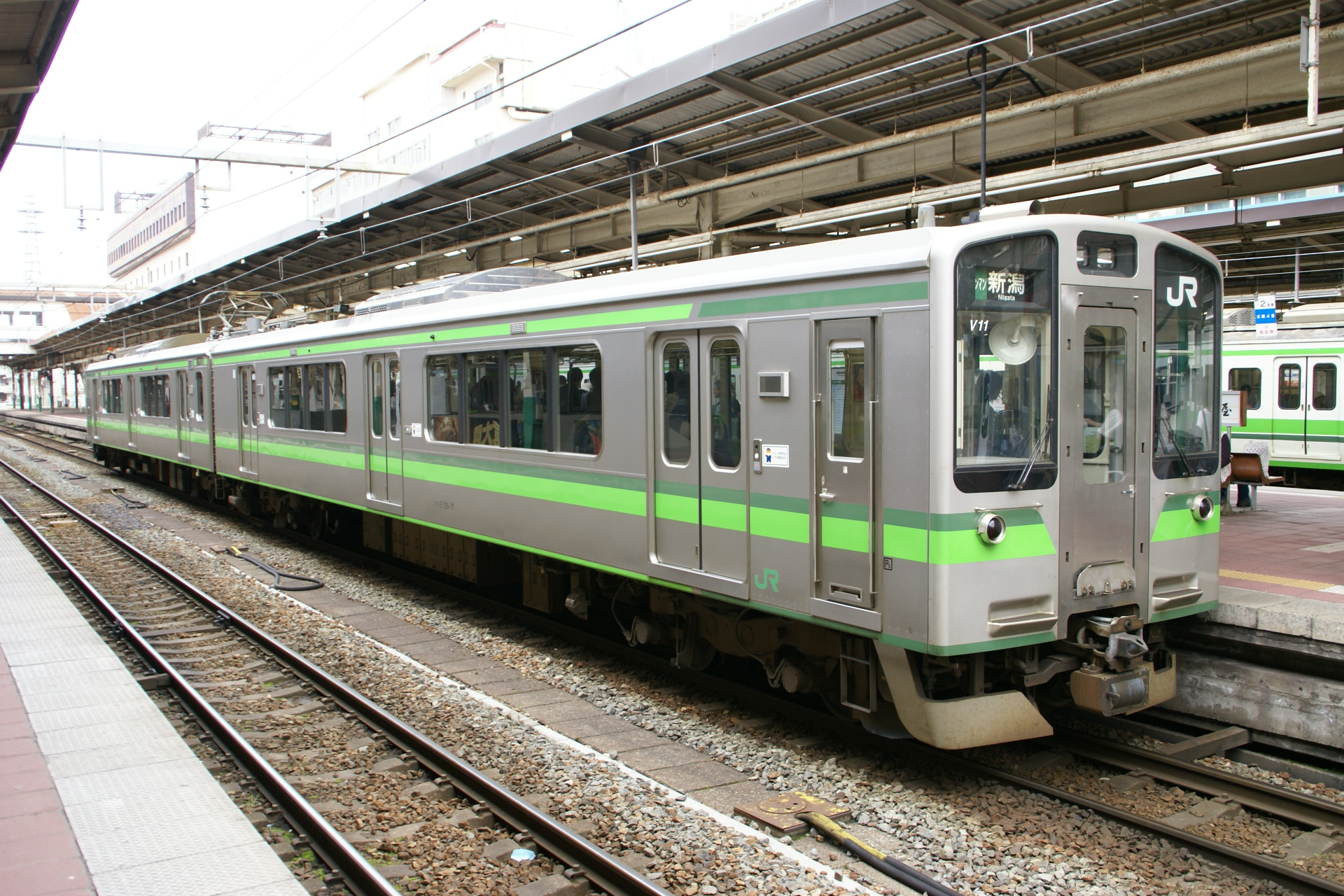 JR East E127 series EMU set V11 at Niigata Station